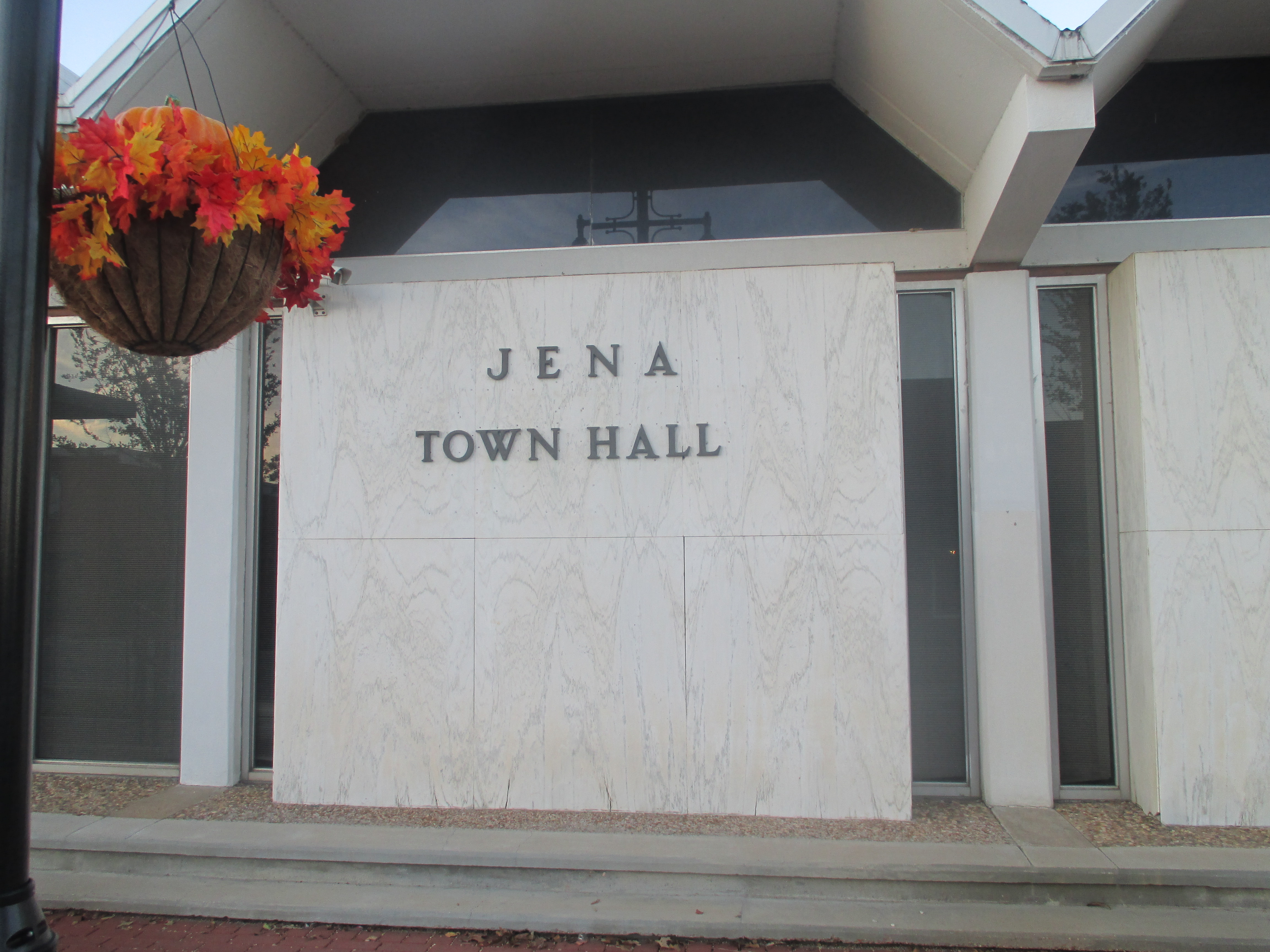 I took photo with Canon camera of Jena, LA, Town Hall.